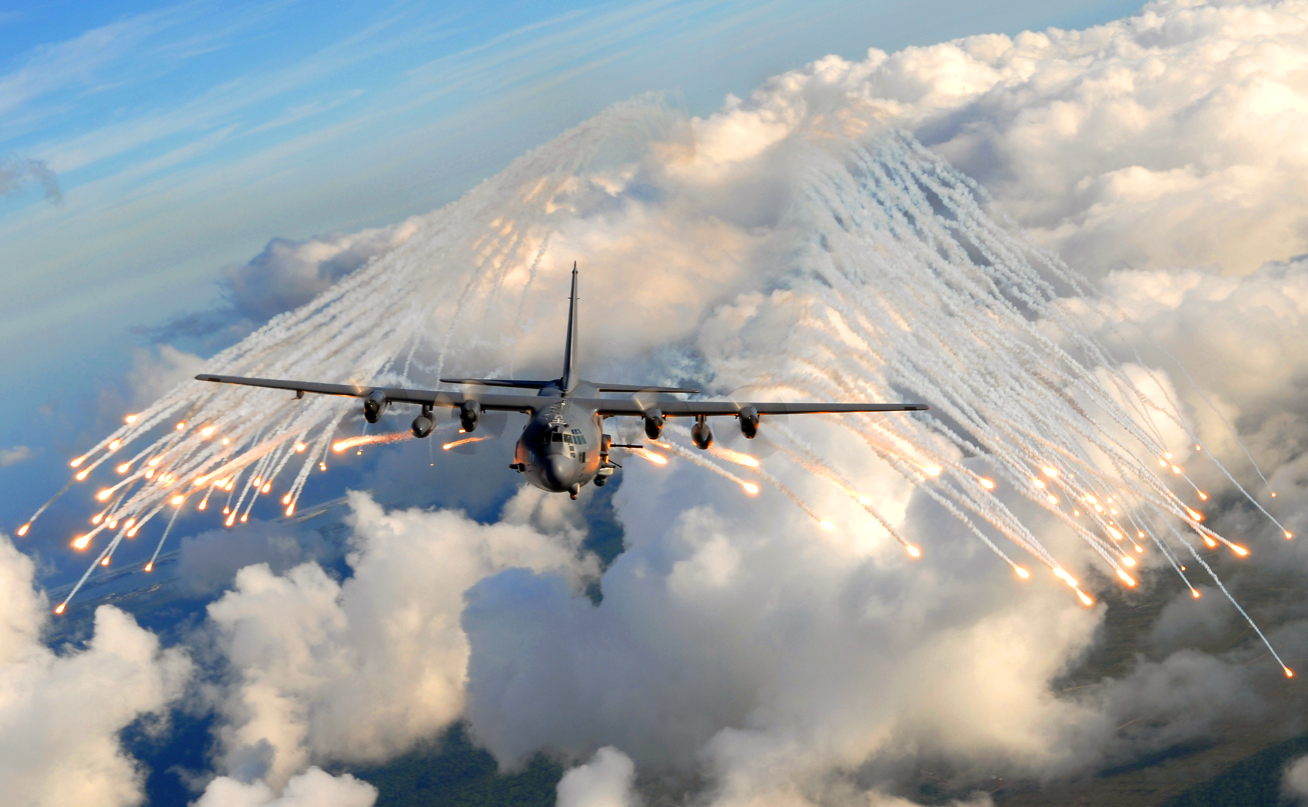 An AC-130U Spooky Gunship from the 4th Special Operations Squadron jettisons flares over an area near Hurlburt Field, Florida, on August 20, 2008. The flares are used as a countermeasure to heat-seeking missiles that can track aircraft during real-world missions.